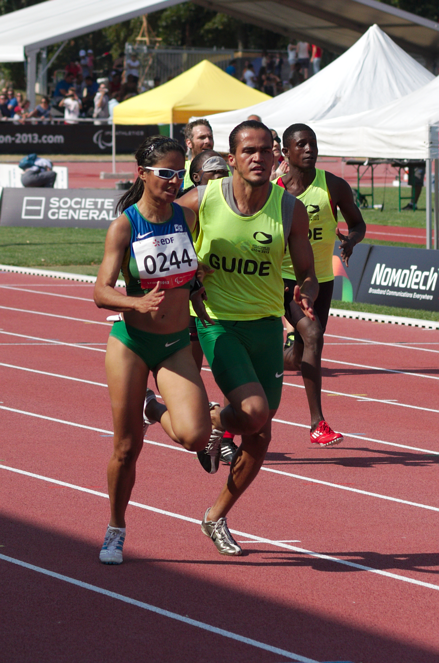 Jerusa Santos and Luiz Henrique Silva of Brasil during the Women's 200m - T11 third semifinal